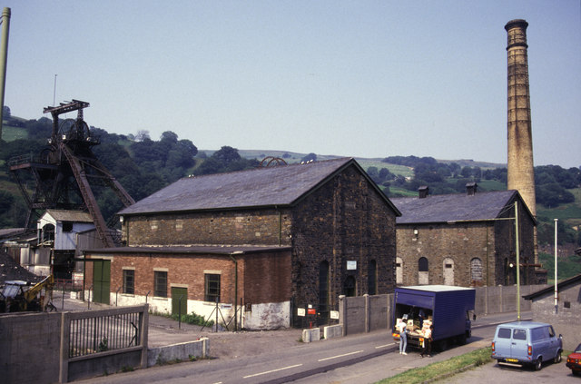 Lewis Merthyr Colliery Closed 1983 but not yet converted to the Rhondda Heritage park.